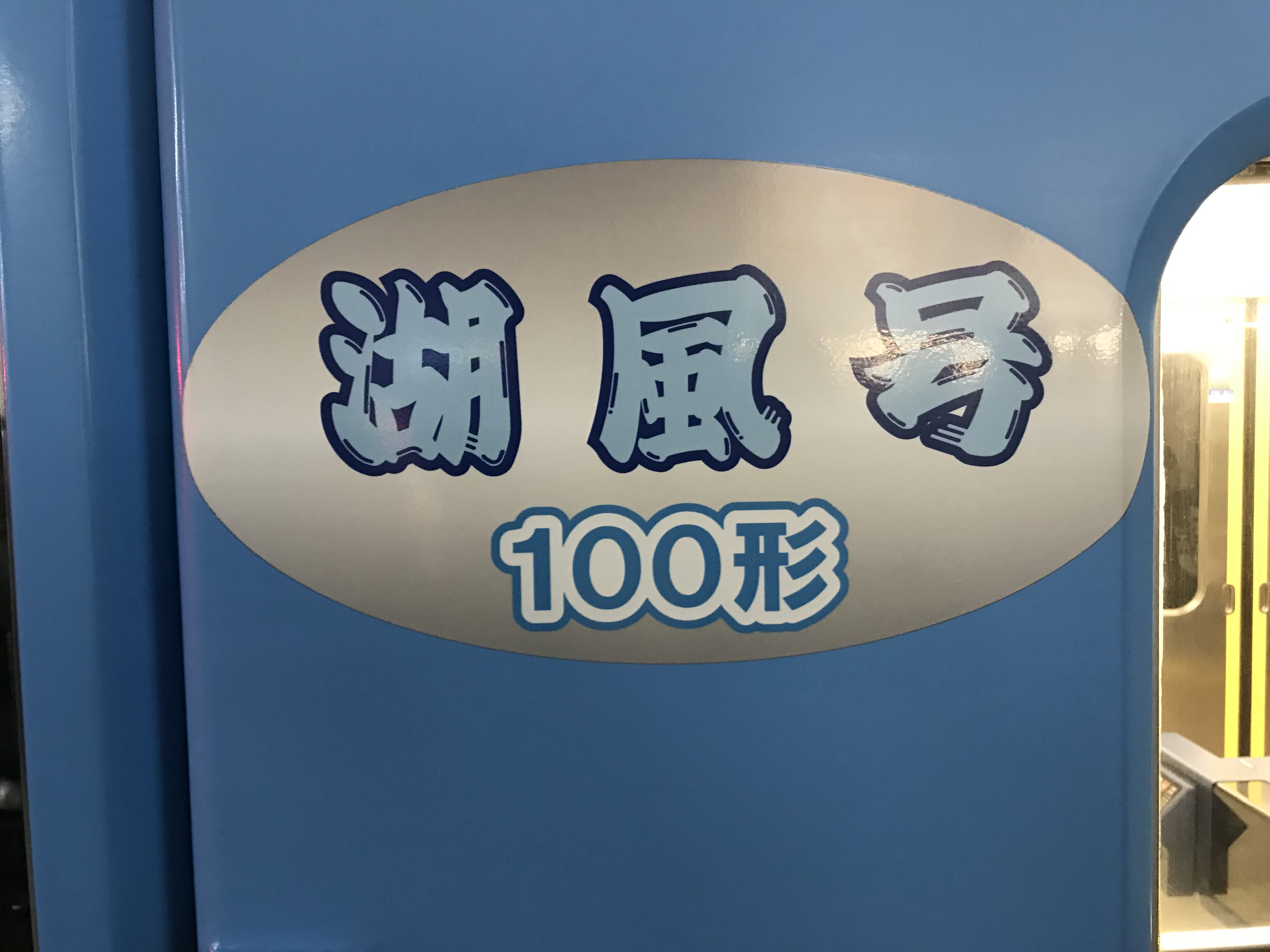 "Umikaze(湖風)" logo on Ohmi railway 101